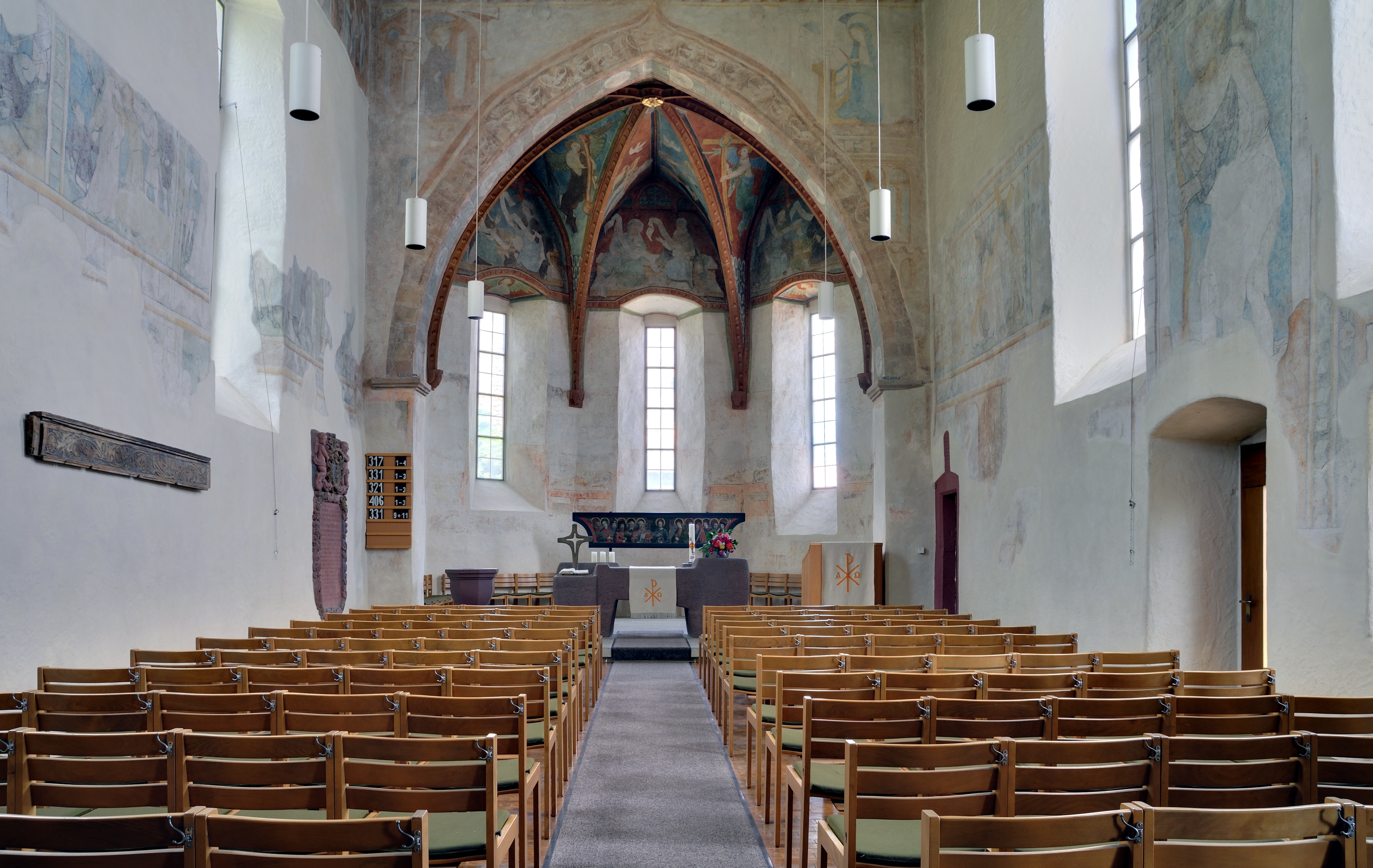 Niedereggenen: Protestant Church